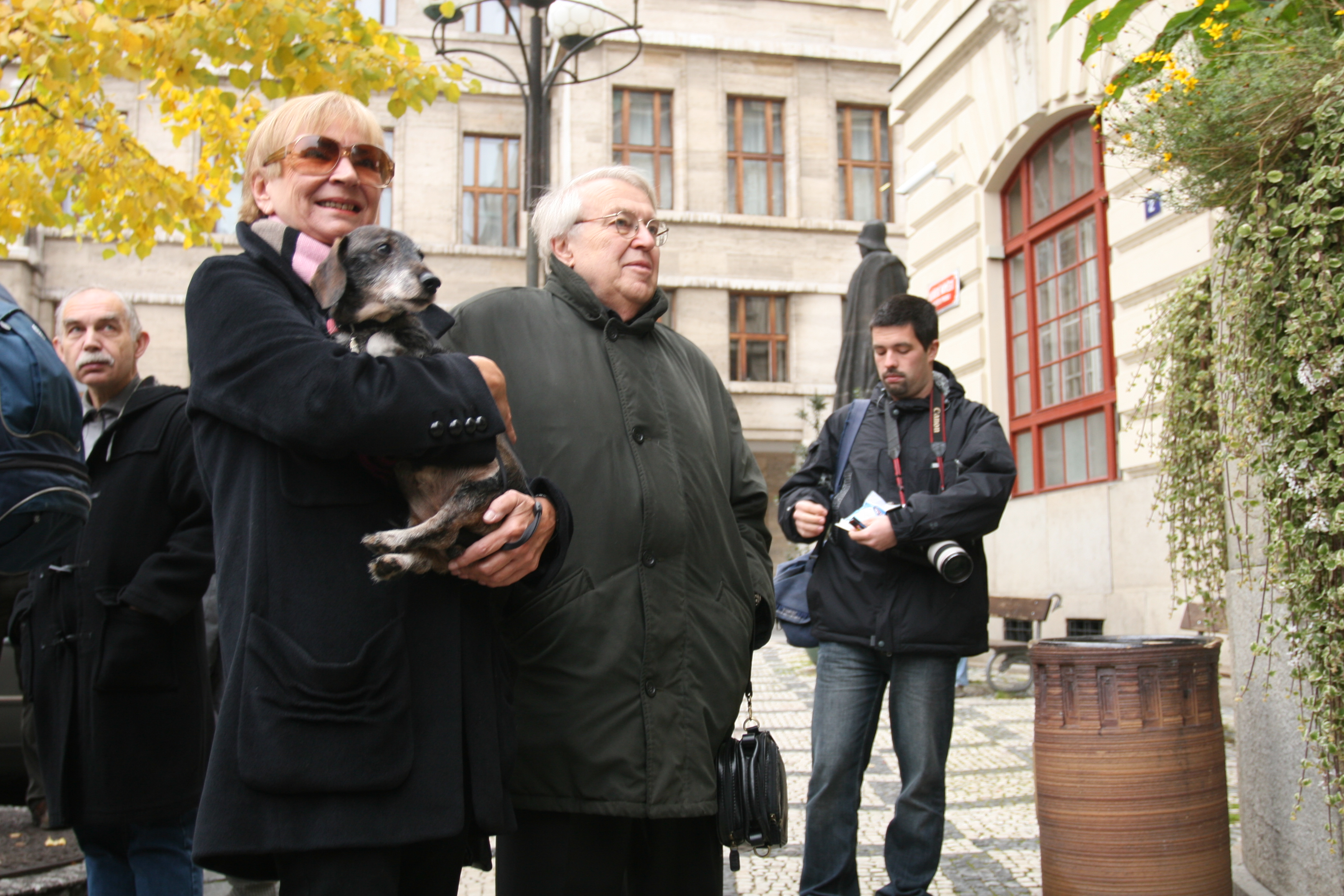 Czech writers Jelena Mašínová and Pavel Kohout on a demonstration supporting the new building of the Czech National Library